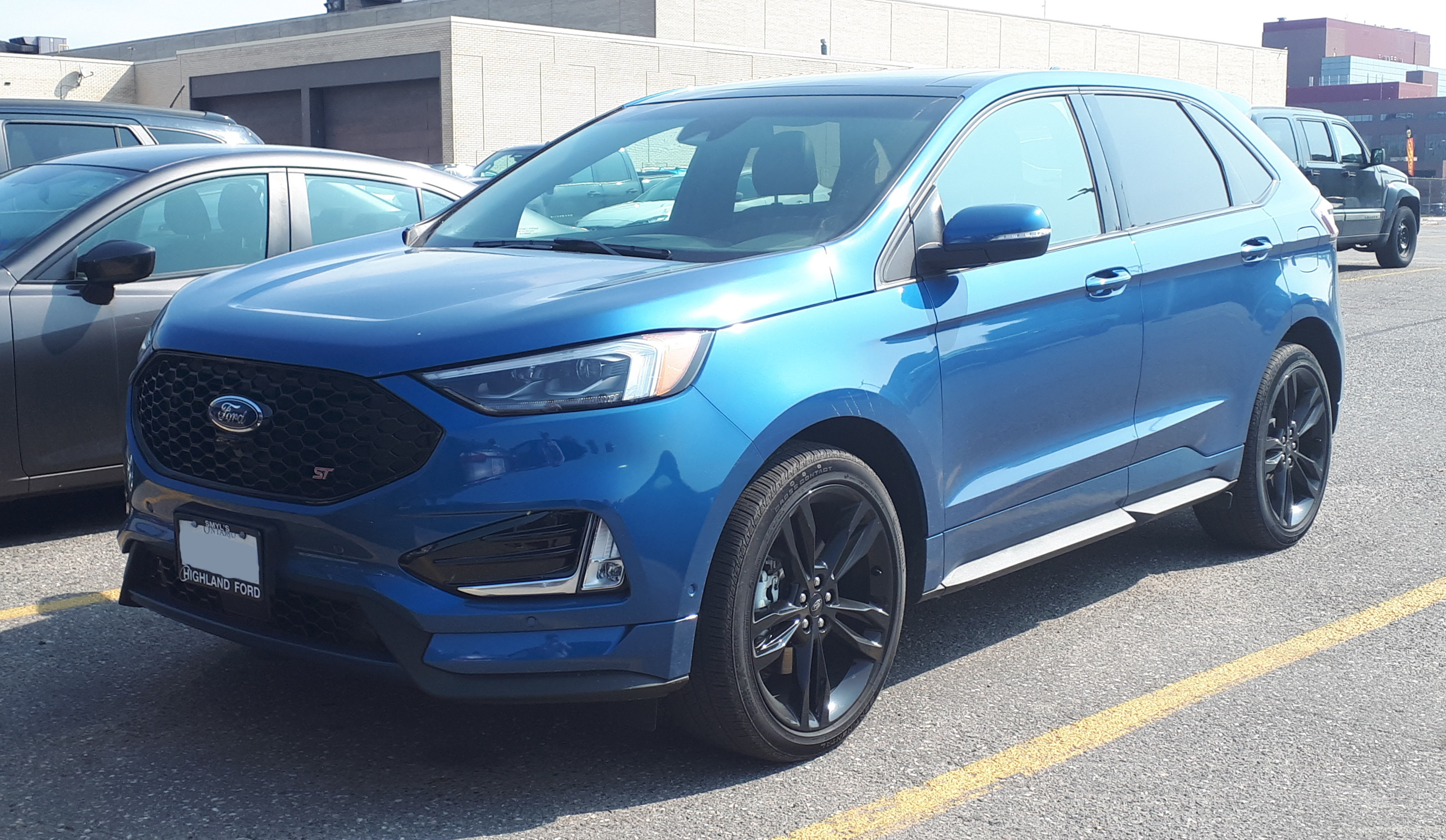 2019-2020 Ford Edge ST photographed in Sault Ste. Marie, Ontario, Canada